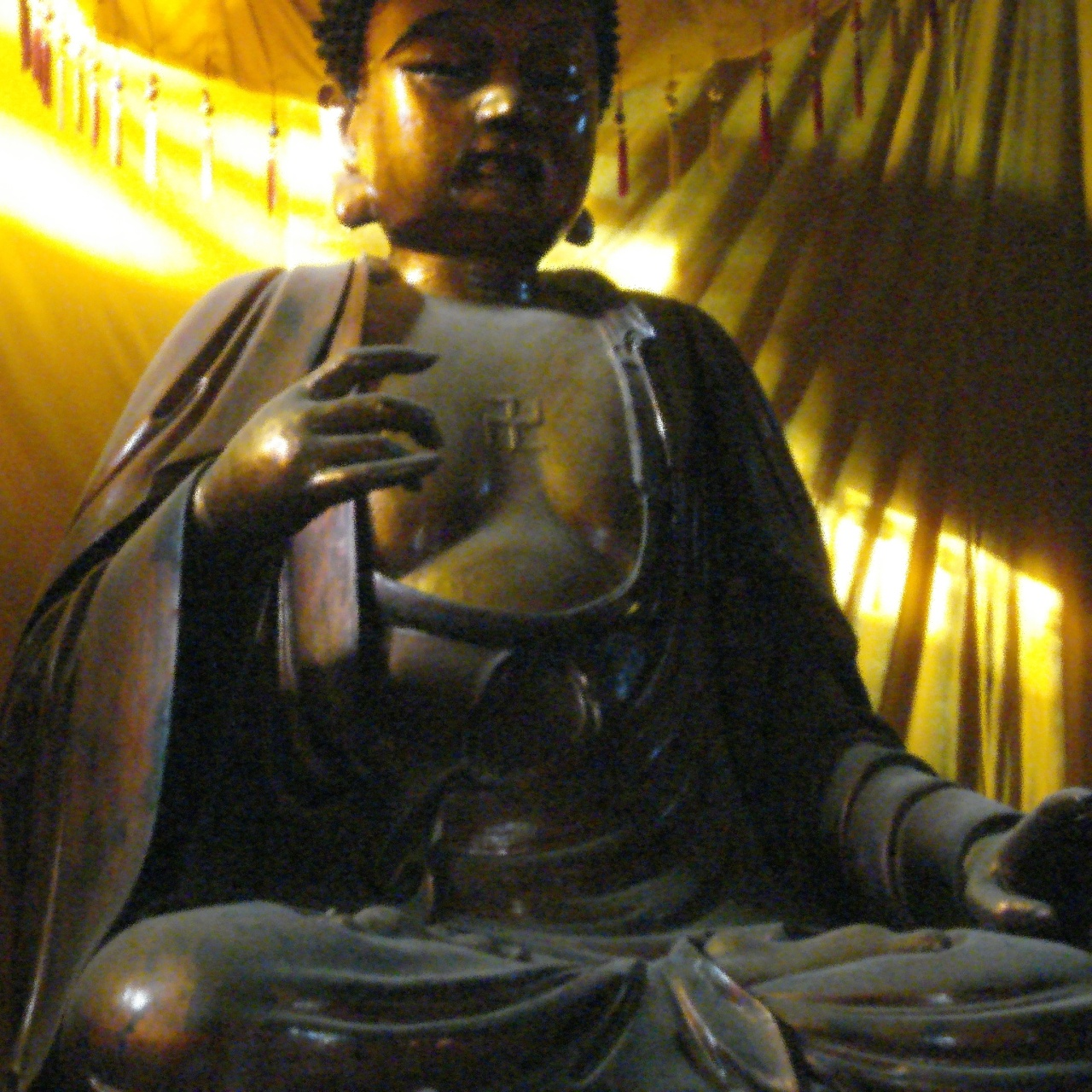 Luoyang, China - Baima Si (Buddha temple of White Horse)